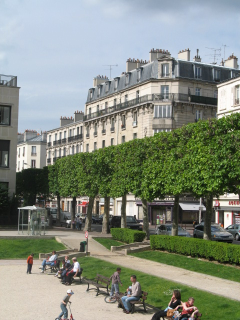 Public park in Charenton-le-Pont. (Author: Metropolitan)